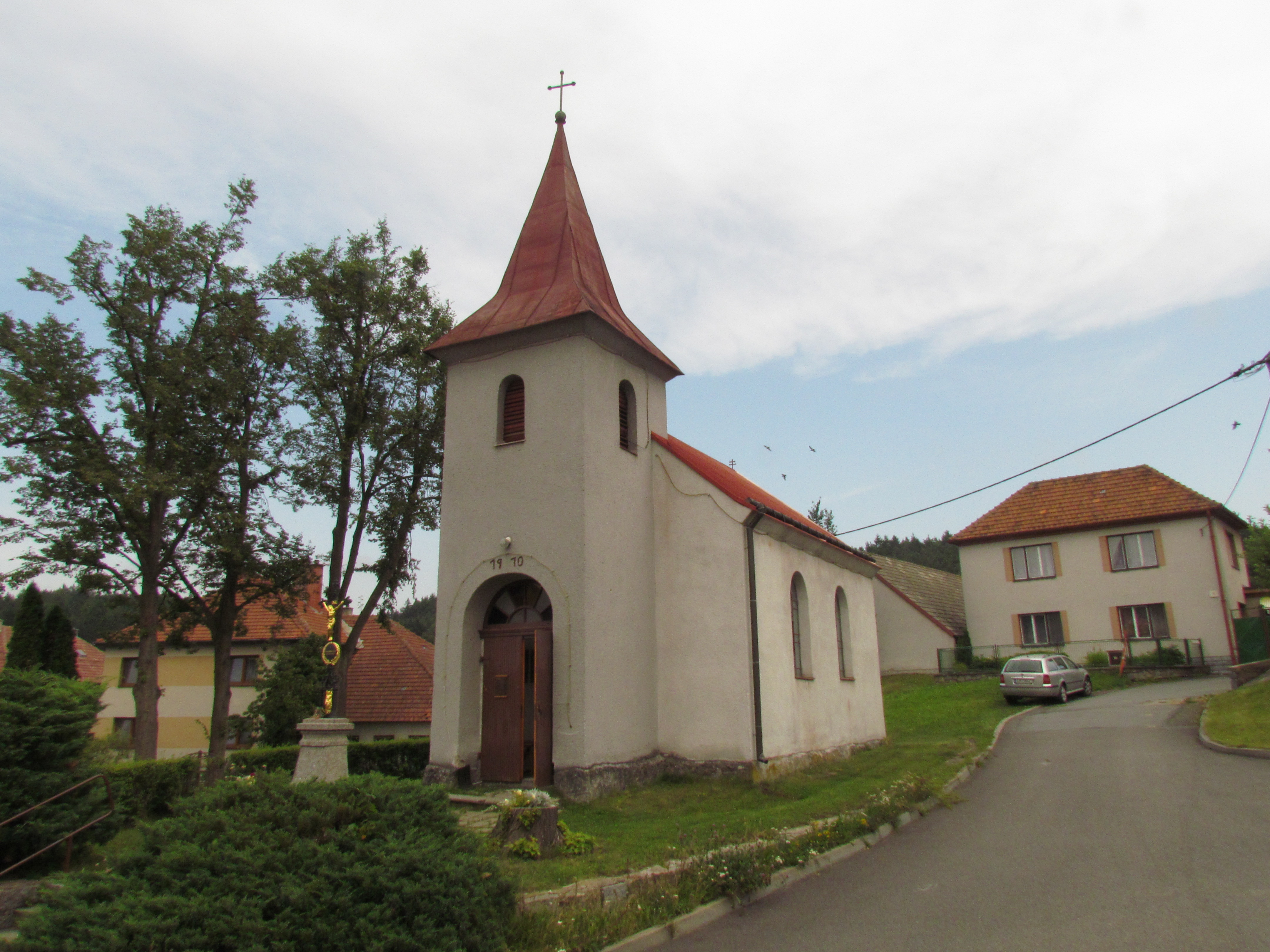 Overview of chapel of Immaculate Conception in Vlčatín, Třebíč District.